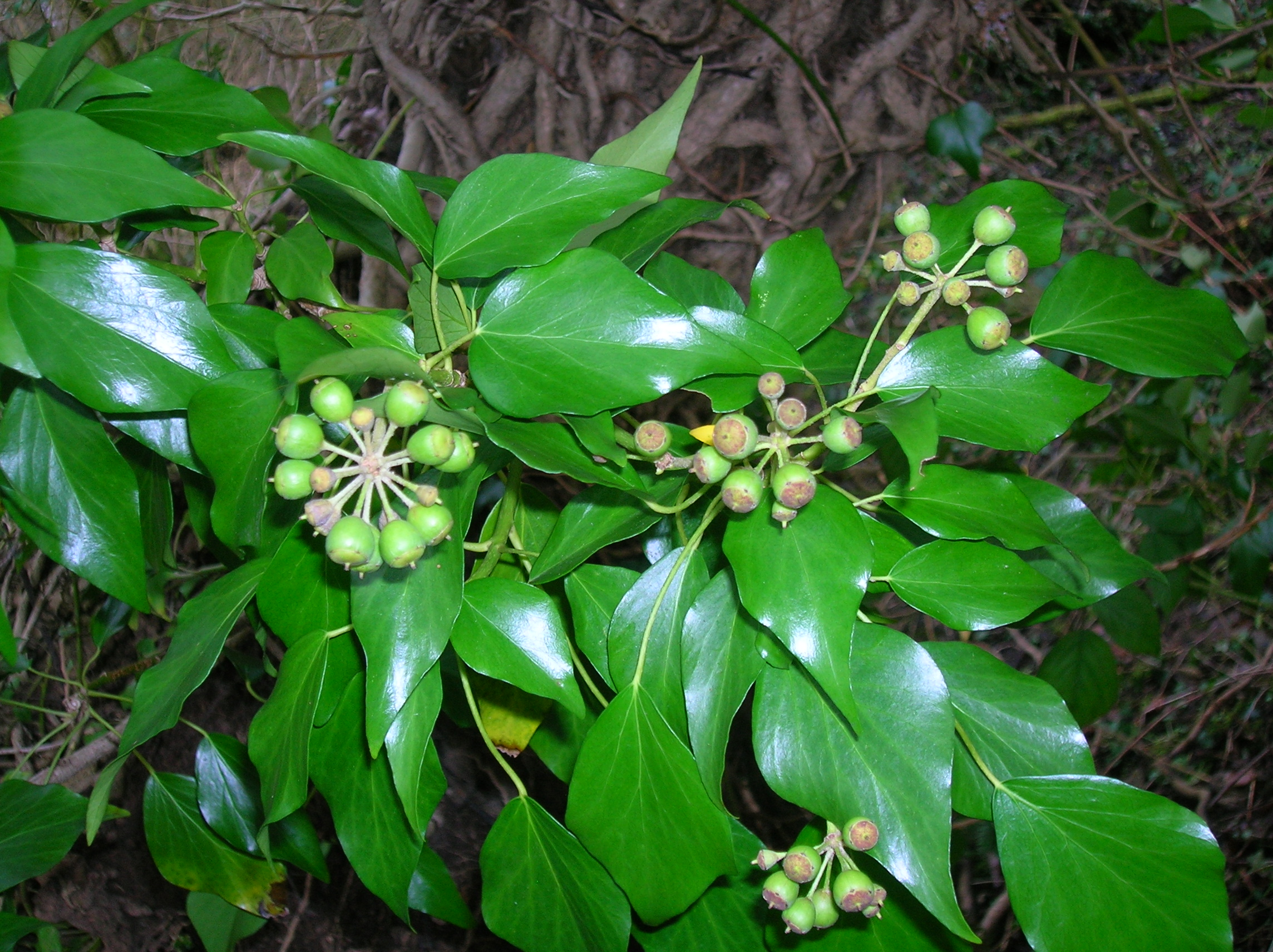 Ivy (Hedera helix) with fruits. Lawthorn Wood. North Ayrshire. Scotland.